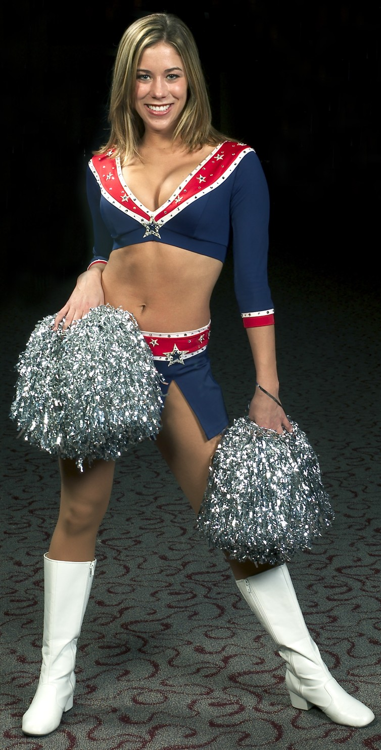 Amber van Eeghen, New England Patriots cheerleader in the National Football League. Eeghen was part of "Operations Seasons Greetings 2004", which involved entertaining for U.S. troops abroad. She performed in the event as one of a group of Patriots cheerleaders. The photo is of her alone, standing.